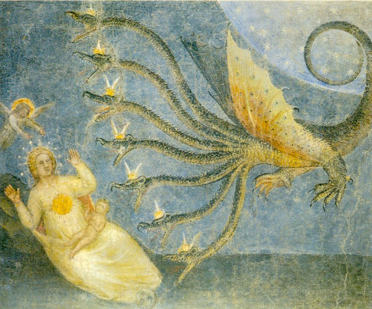 Woman and dragon